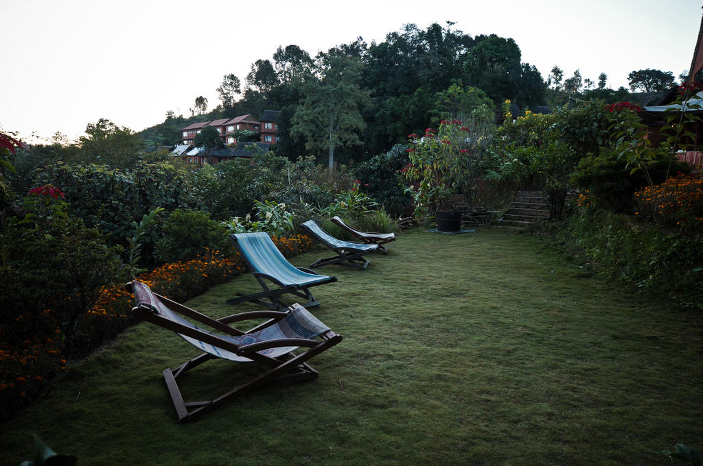 Dhulikhel Mountain Resort Khawa Panchkhal